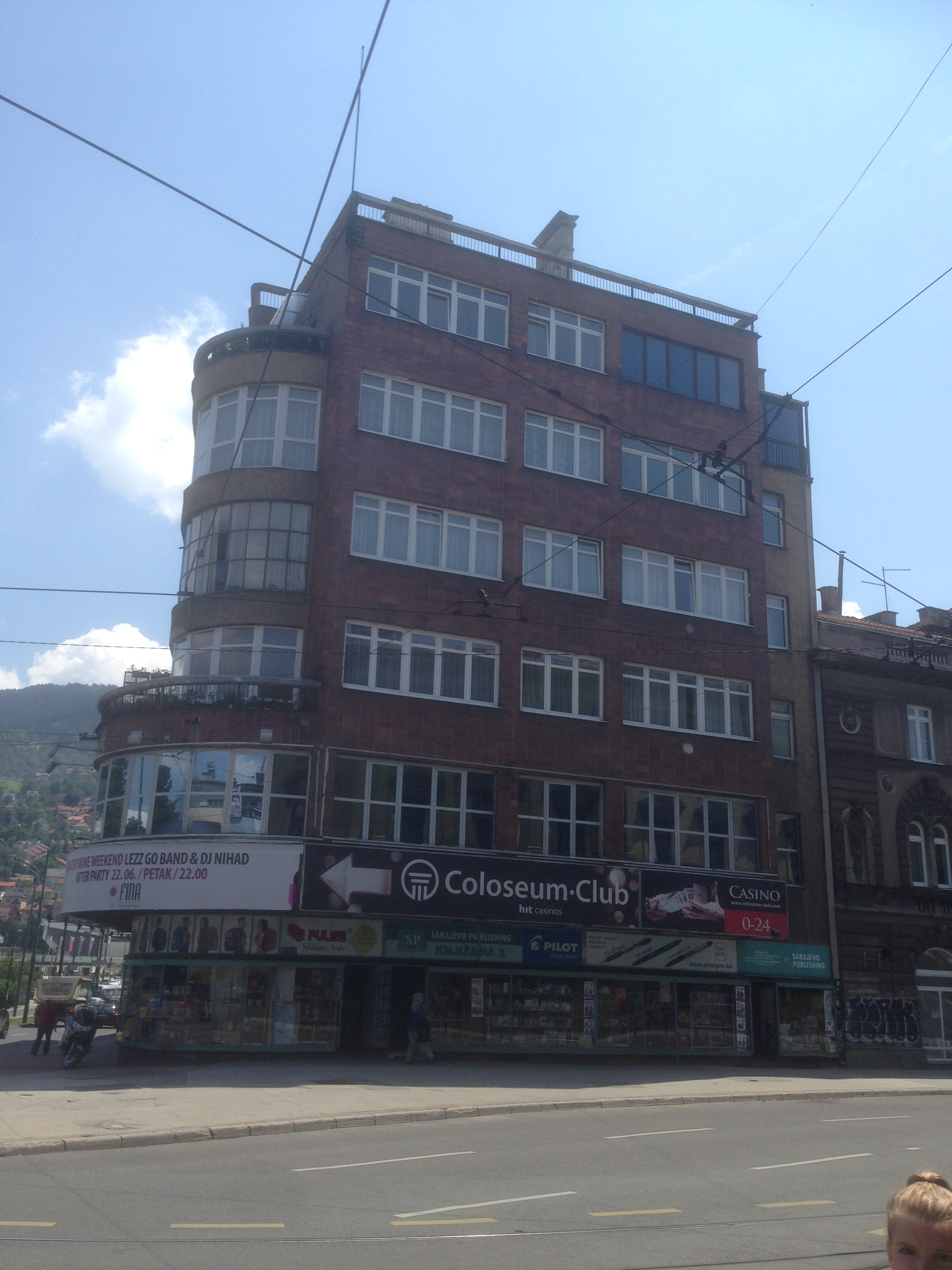 Building in H. Hume street